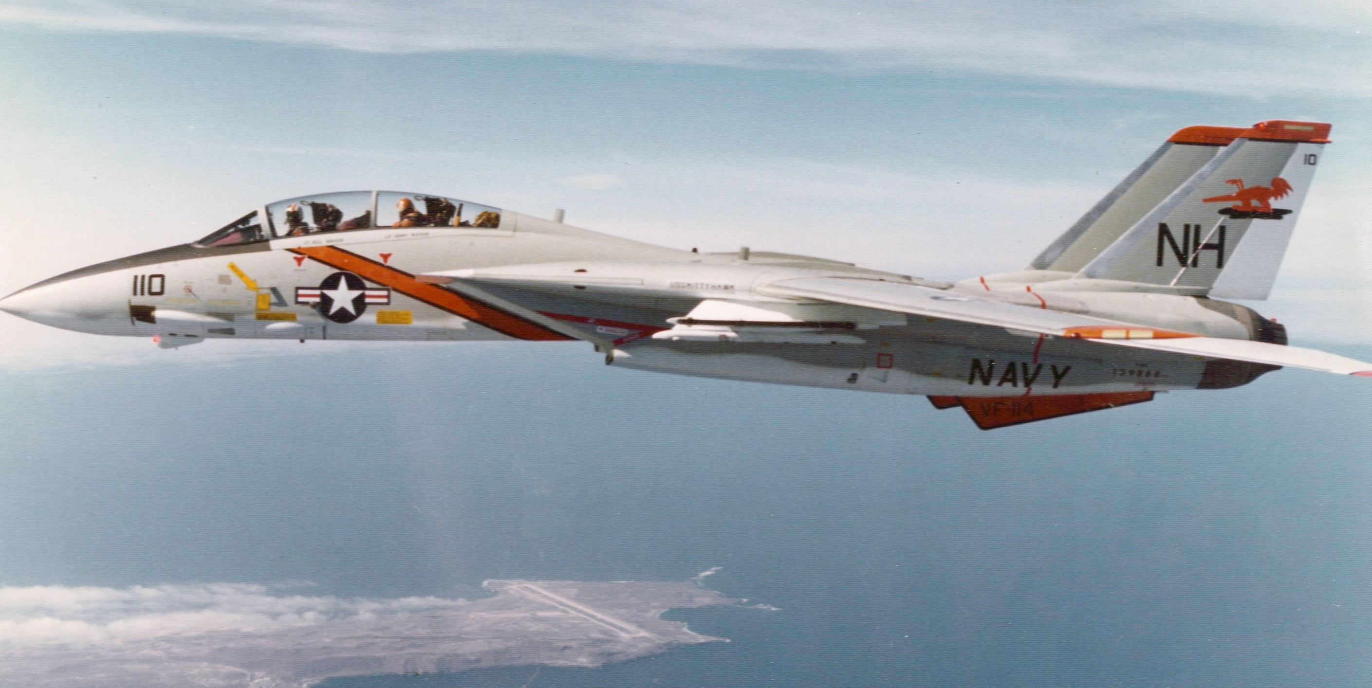 A U.S. Navy Grumman F-14A-90-GR Tomcat (BuNo 159868) of Fighter Squadron 114 (VF-114) "Aardvarks" in flight. VF-114 received the first Tomcat on 15 December 1975. The transition took a little more than a year and the squadron deployed with its F-14s for the first time with Carrier Air Wing 11 (CVW-11) aboard the aircraft carrier USS Kitty Hawk to the Western Pacific from 25 October 1977 to 15 May 1978.